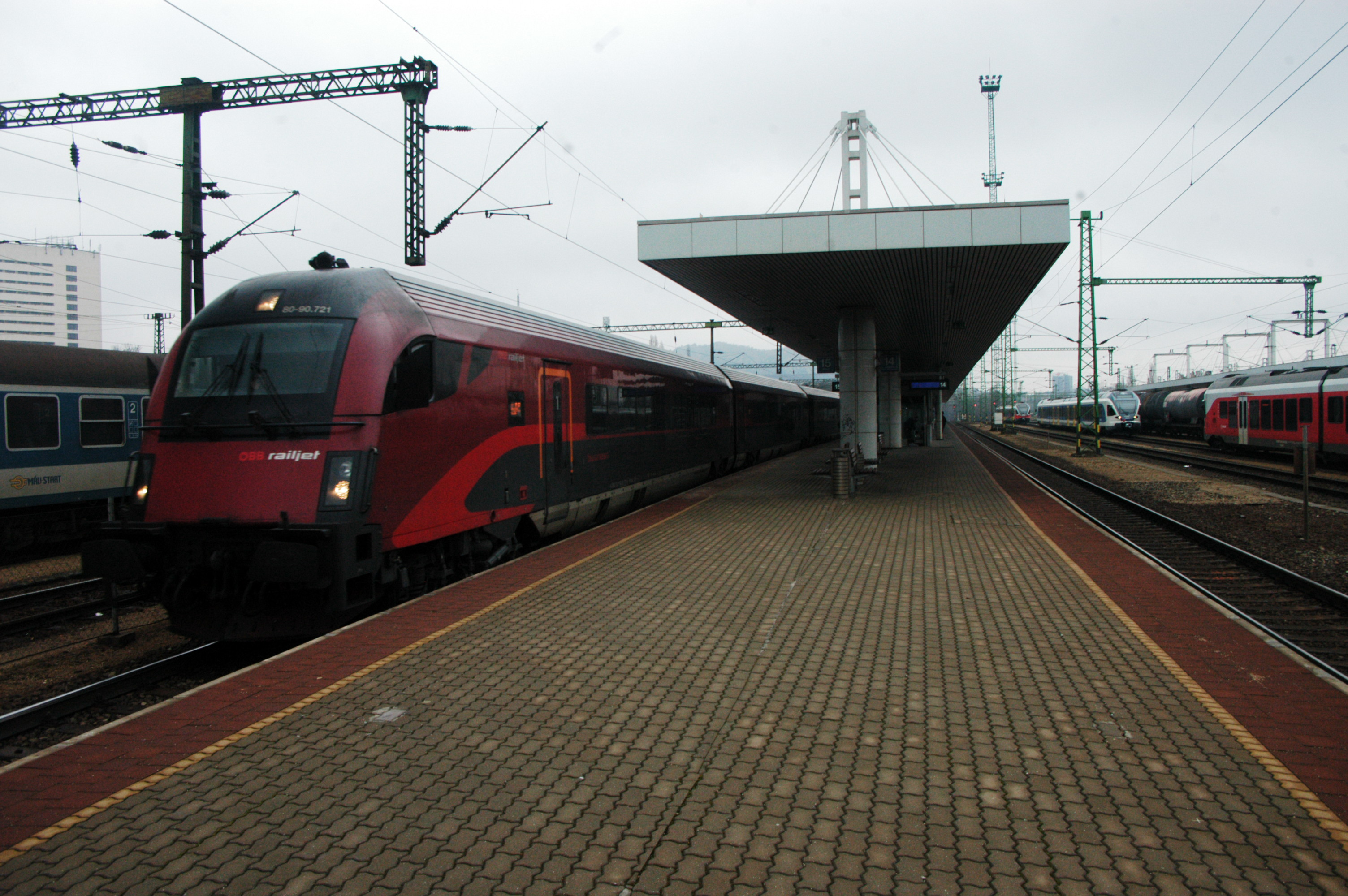 Railjet train departs toward Munich